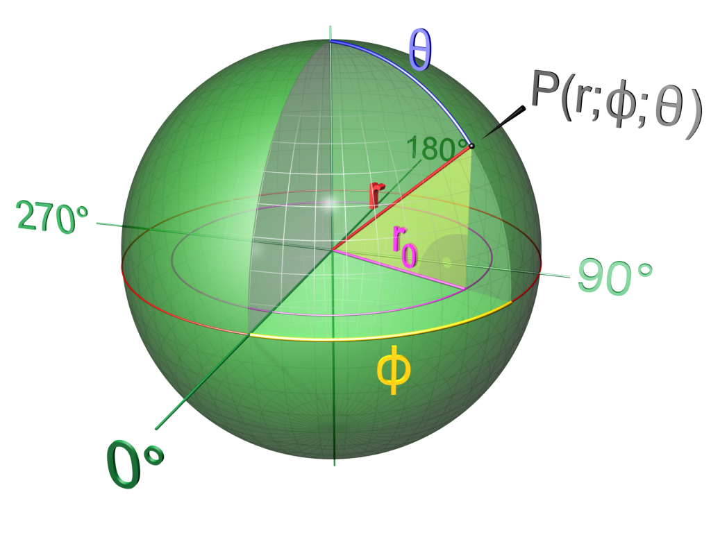 Illustration of the geometrical sphere